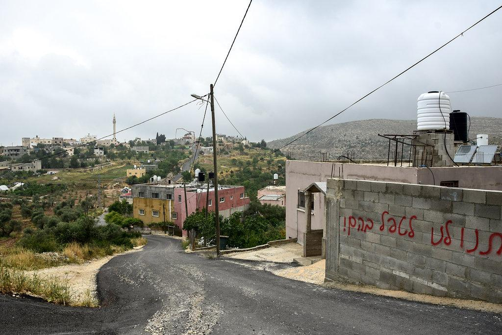 “Let us handle them.” Graffiti settlers spray-painted in Hebrew on the wall of a home in the village of Jalud, Nablus District. Photo by Salma a-Deb’i, B’Tselem, 26 April 2018.